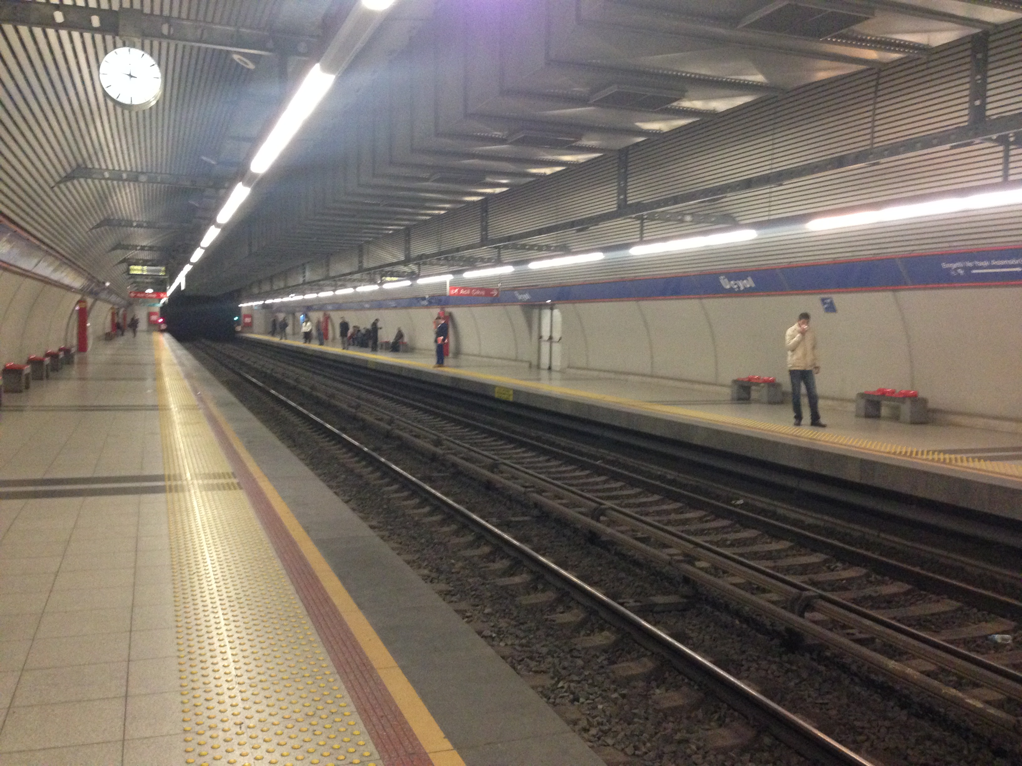 Ücyol metro station in Izmir.